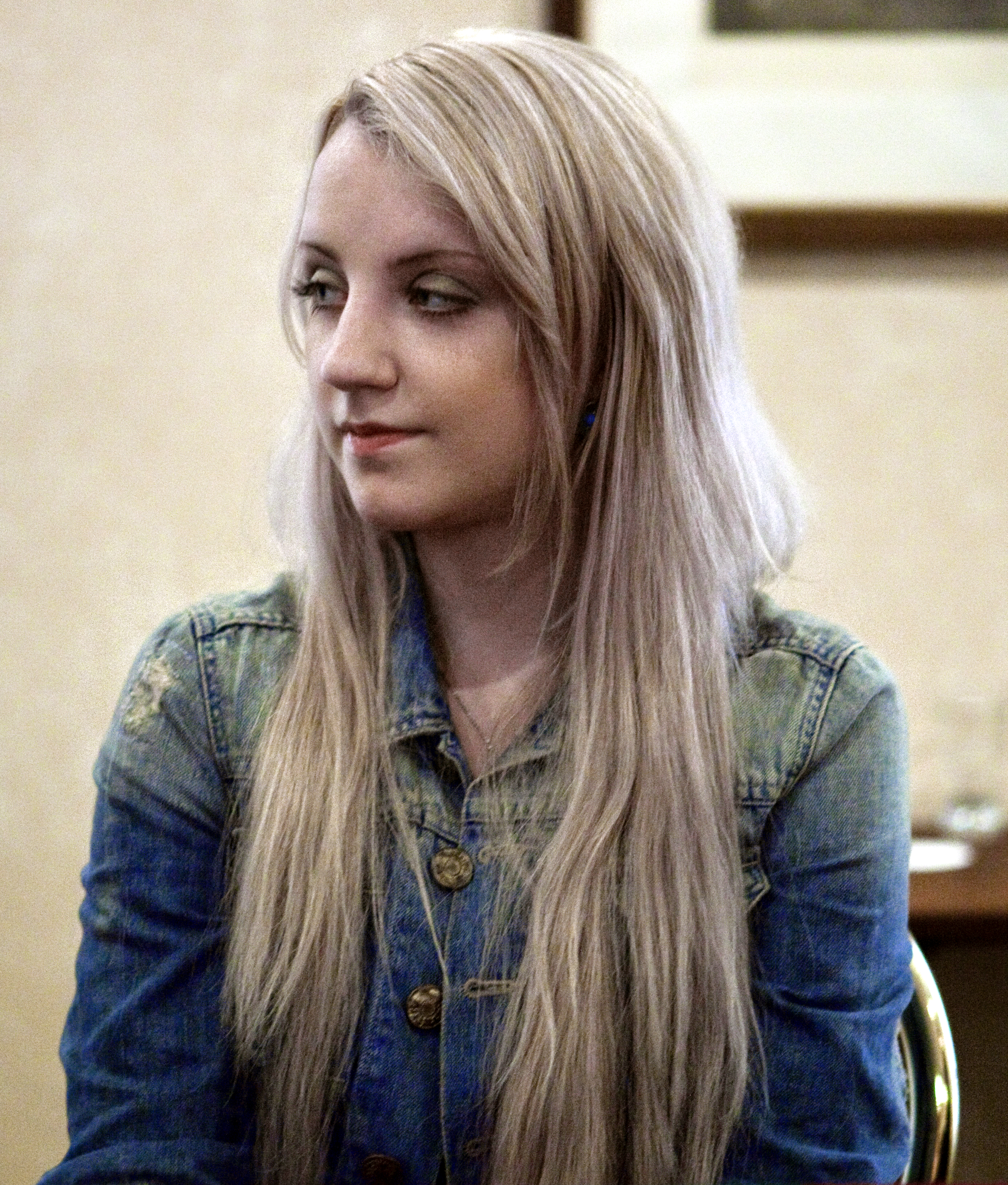 Today I interviewed for my cinema website, three Harry Potter movies actors: Evanna Lynch (Luna Lovegood) and the Phelps Twins (Weasley Twins). Here you can watch the videos!